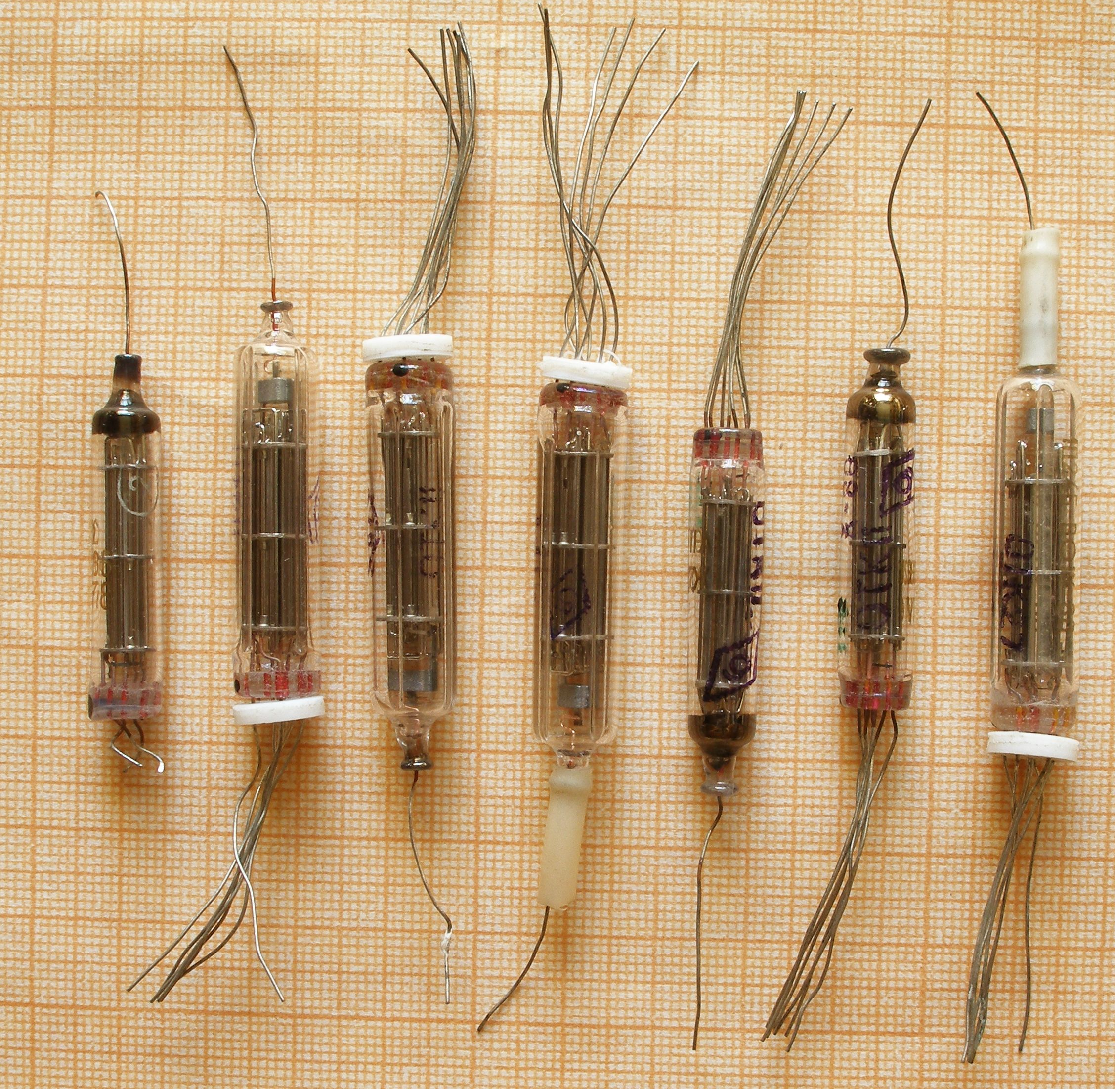 Russian stick tubes